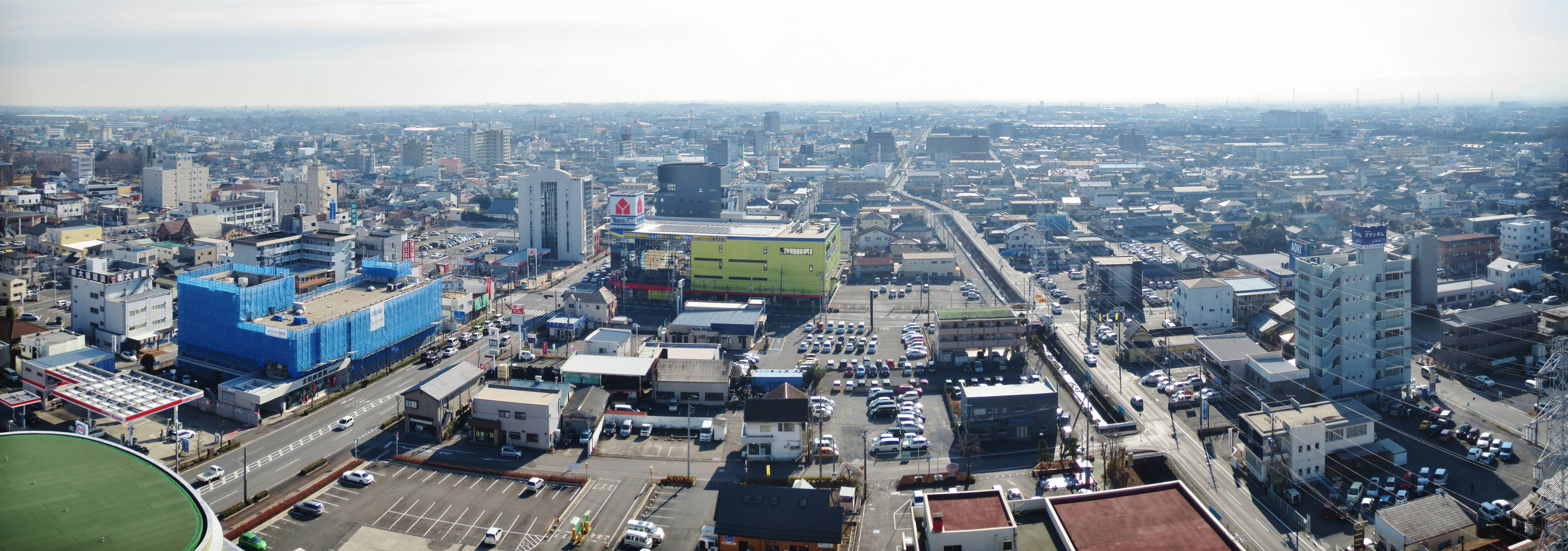 View from Ota city office (south).